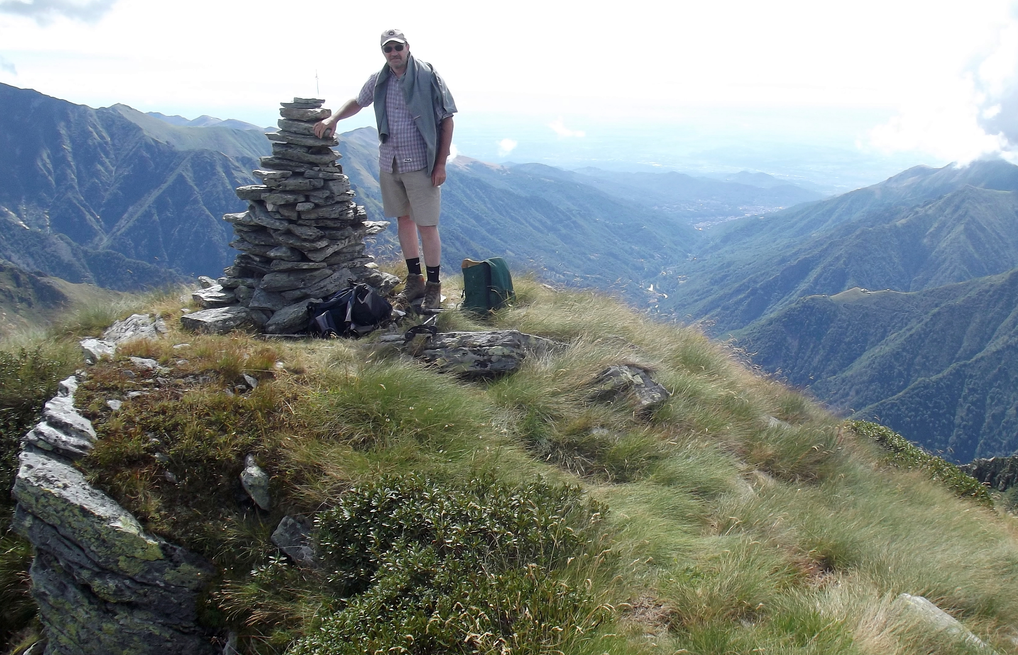 Punta Serange, Cervo valley (Alpi biellesi) in the background